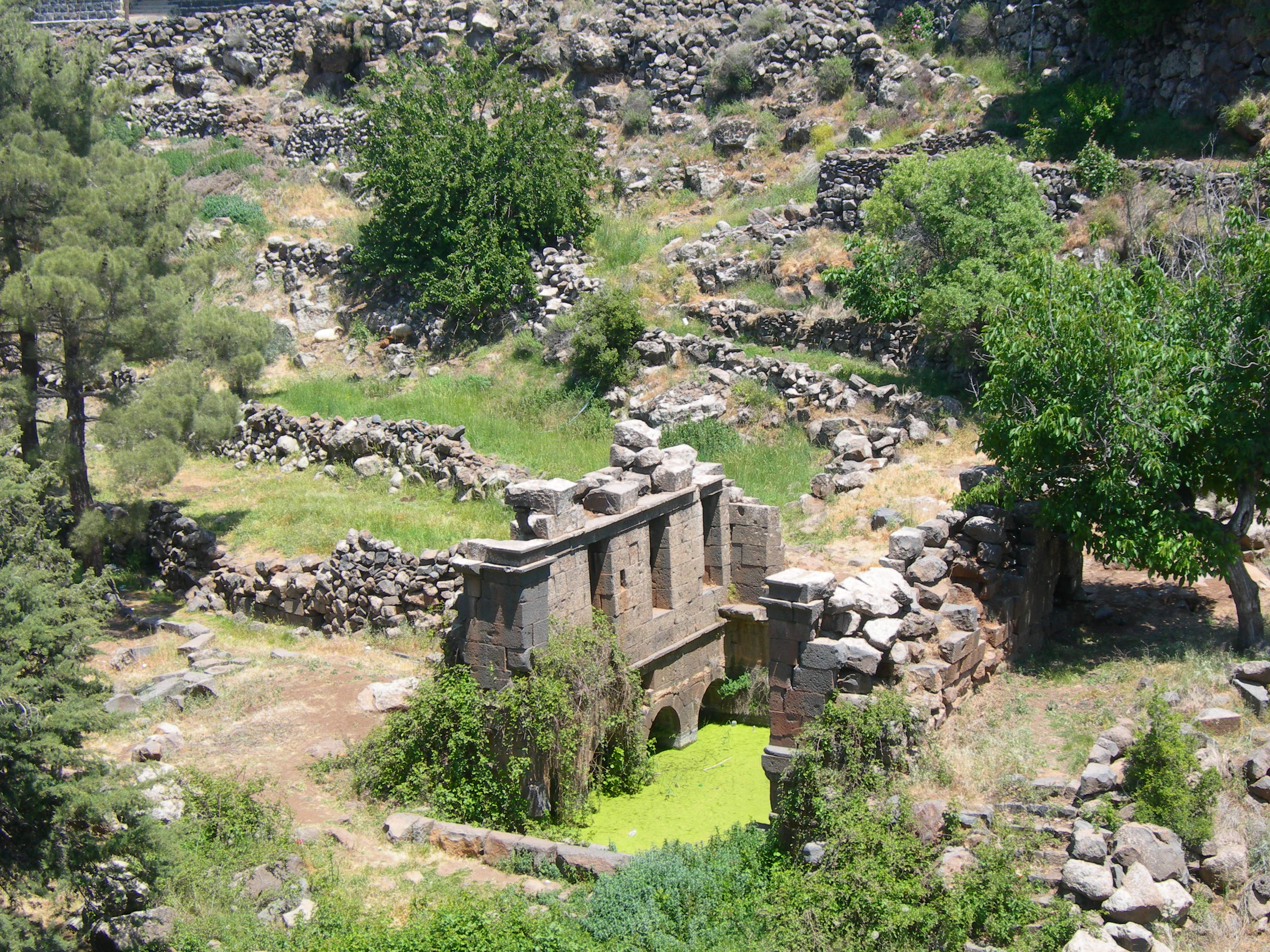 Roman nympheum, Al Quanawat in 2008